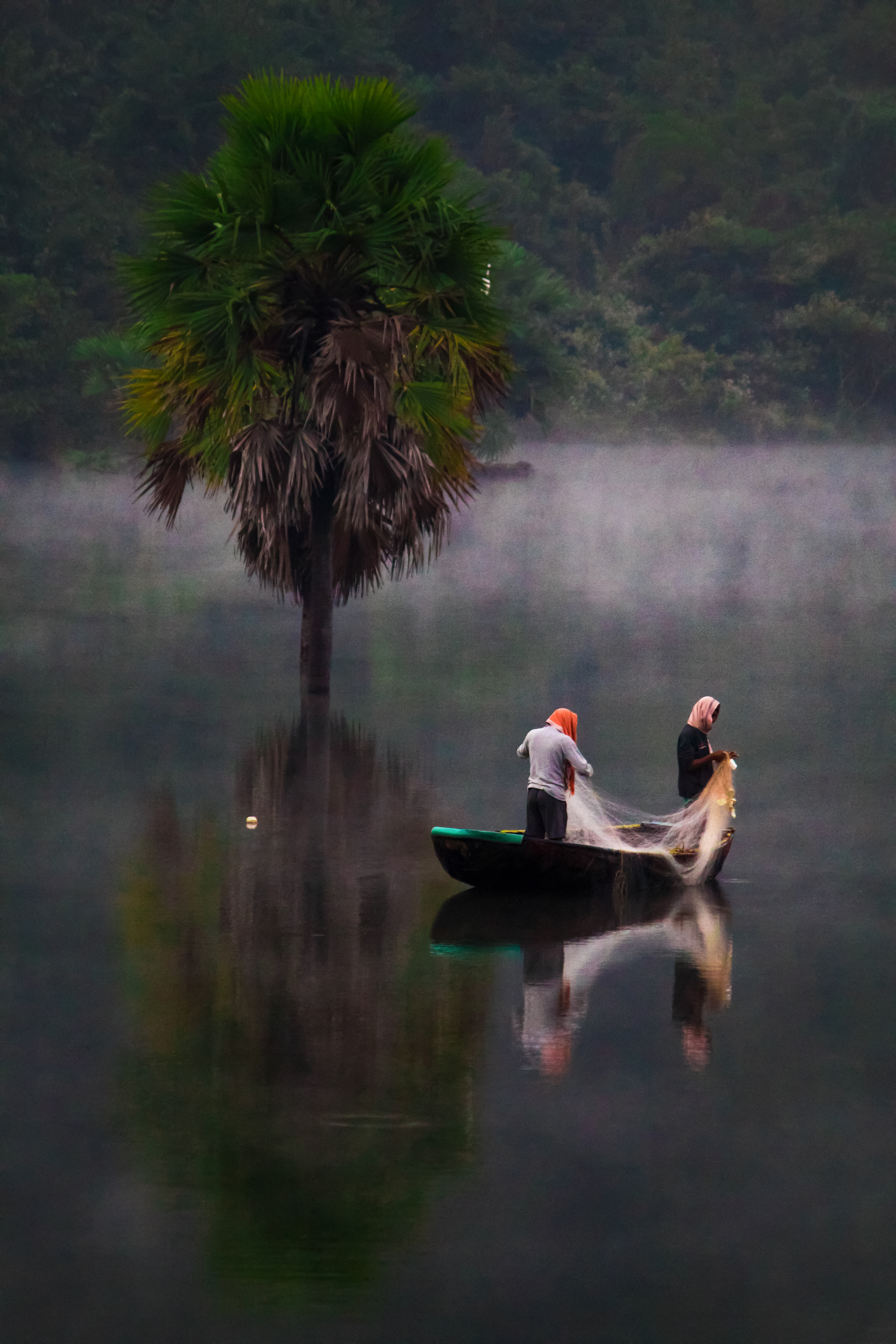 Fishing at Bhupathipalem reservoir in Winter